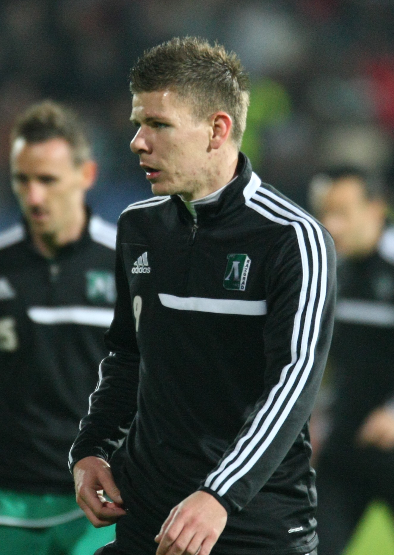 Roman Bezjak (born 21 February 1989) is a Slovenian footballer who currently plays as a striker for Ludogorets Razgrad in the Bulgarian A Group